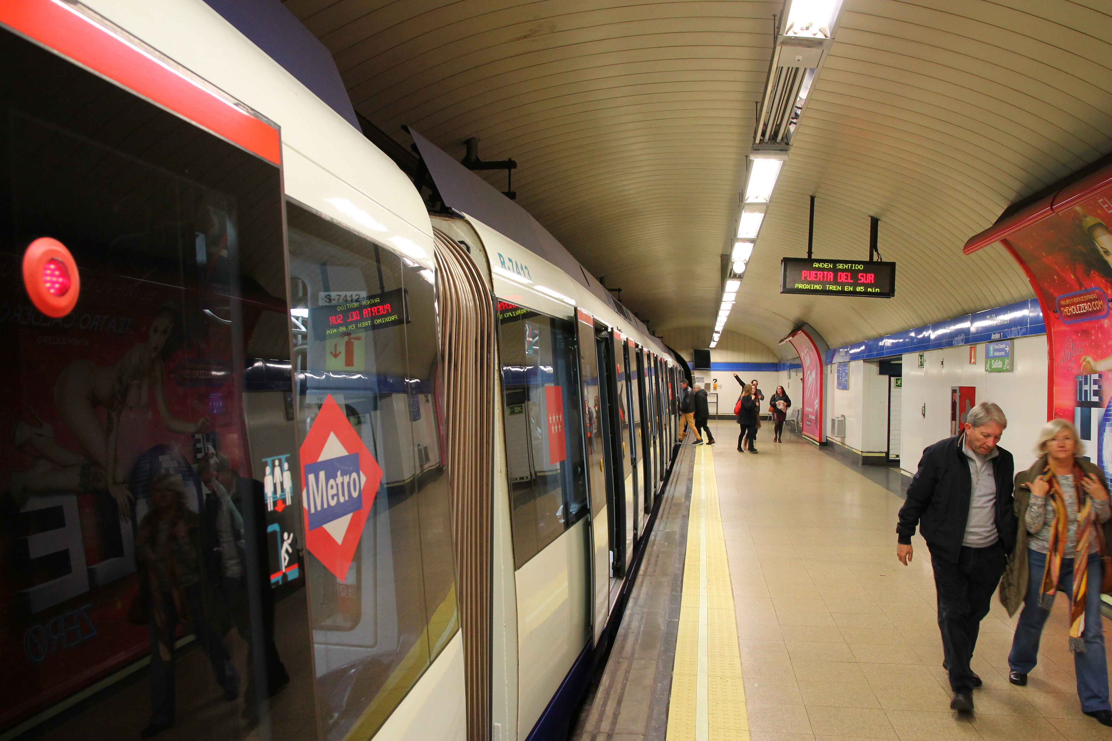 Estación de Tribunal